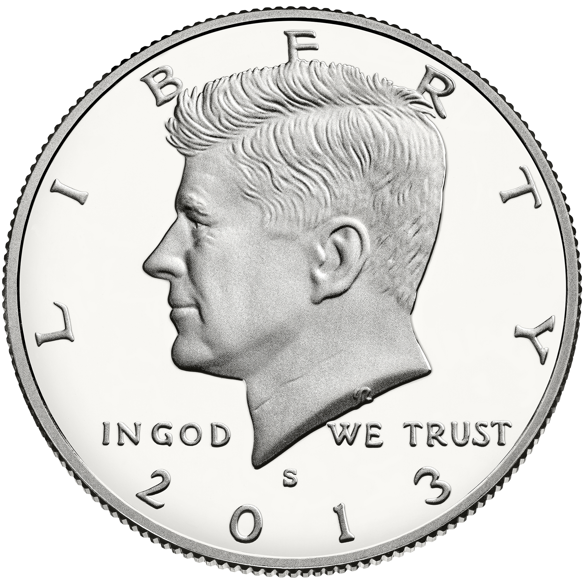 United States Half Dollar coin obverse